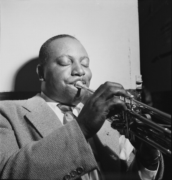 Cootie Williams. Photography by William P. Gottlieb